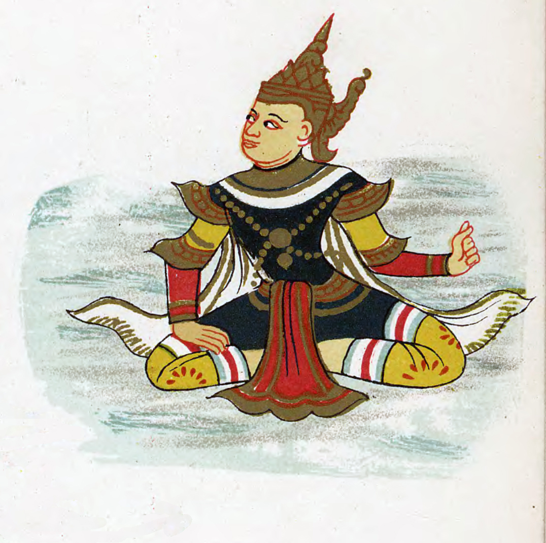 Akathaso in Burmese representationမြန်မာဘာသာ: အာကာသစိုး